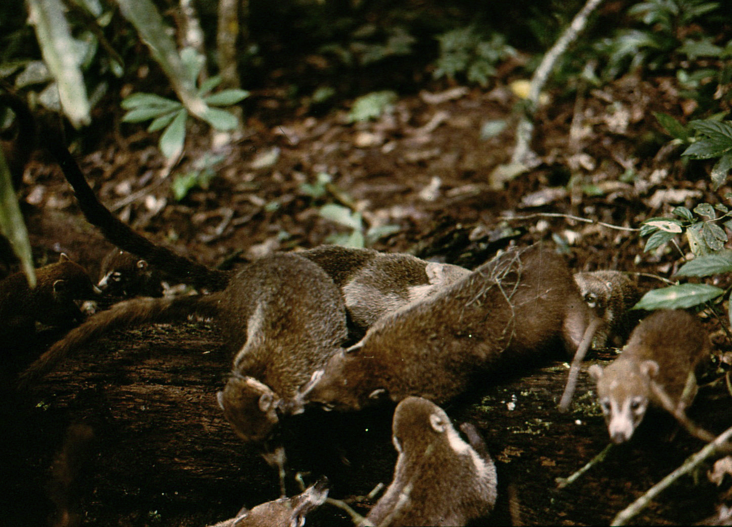 A coati band reaggregating.